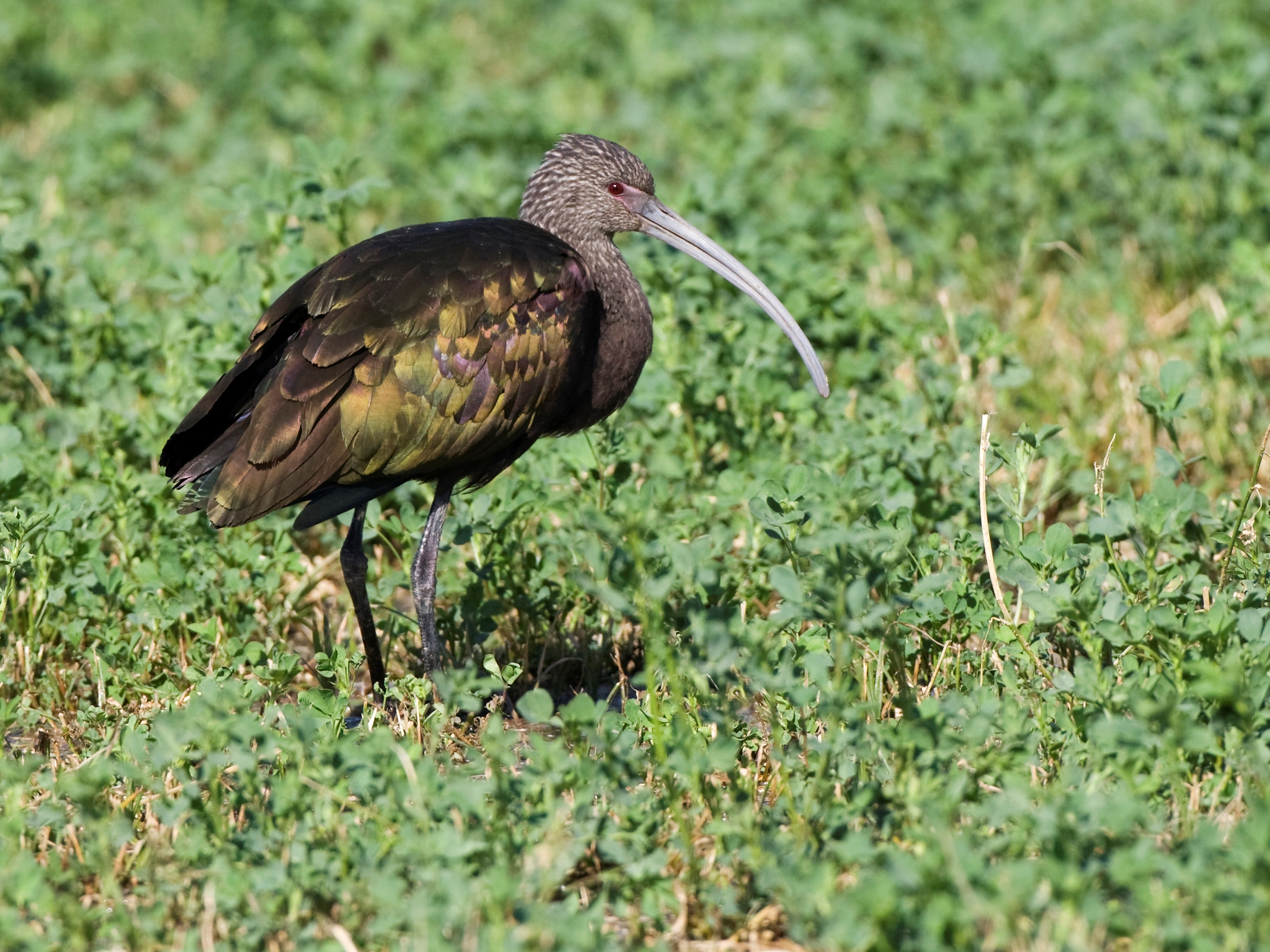 White-faced Ibis (Plegadis chihi) in non-breeding plumage. During breeding season they will have a white border at the base of their bill that surrounds the eye and red legs. Taken in a field next to the Pixley National Wildlife Refuge in the San Joaquin Valley.